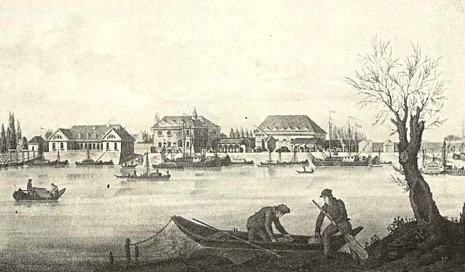 Rheinschanze of Mannheim in Germany 1834